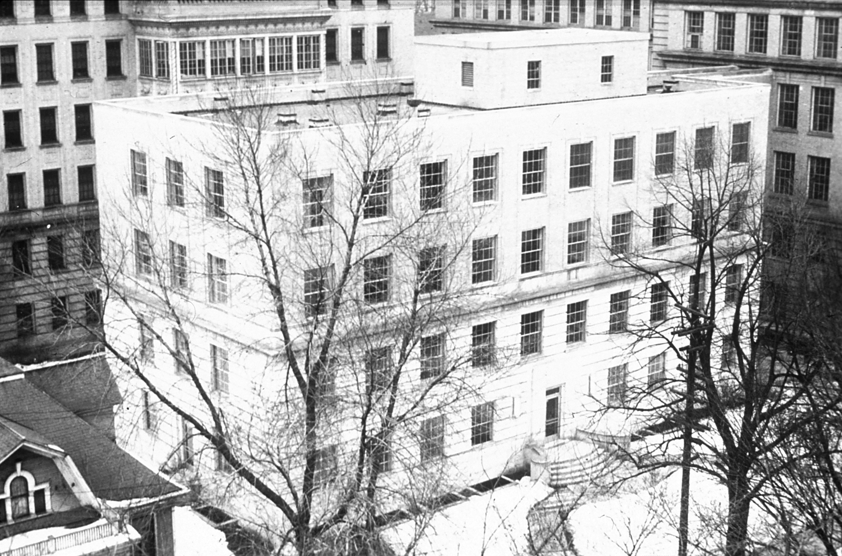 Title McArdle Laboratory For Cancer Research at the University of Wisconsin Description Photo of the original building on completion, 1940. Then called McArdle Memorial Laboratory for Cancer Research. Topics/Categories Historical, Graphics Type B&W, Photo Source University of Wisconsin